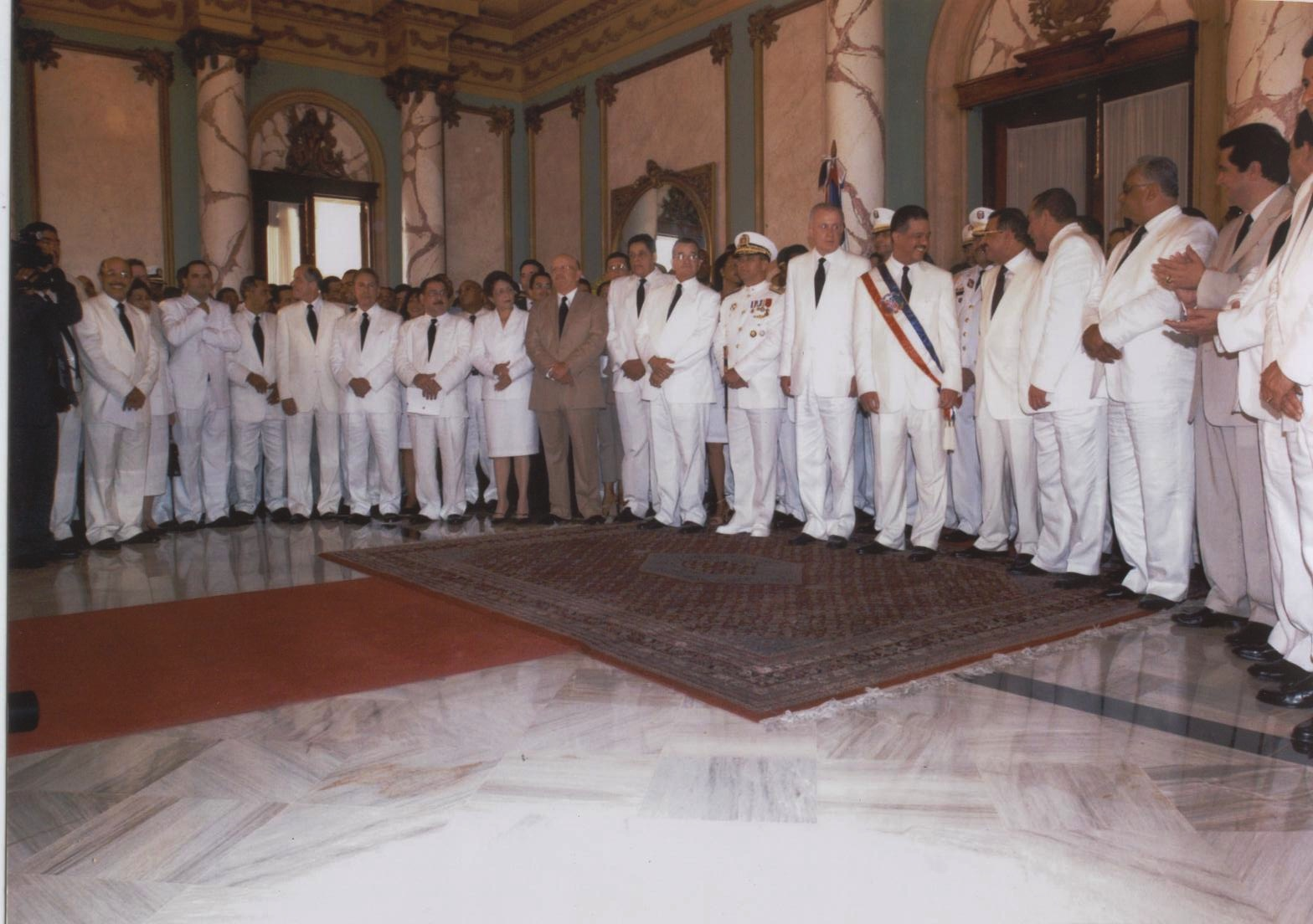 Juramentación del Primer Gabinete de Gobierno de Leonel Fernández para el periodo 2004-2008.